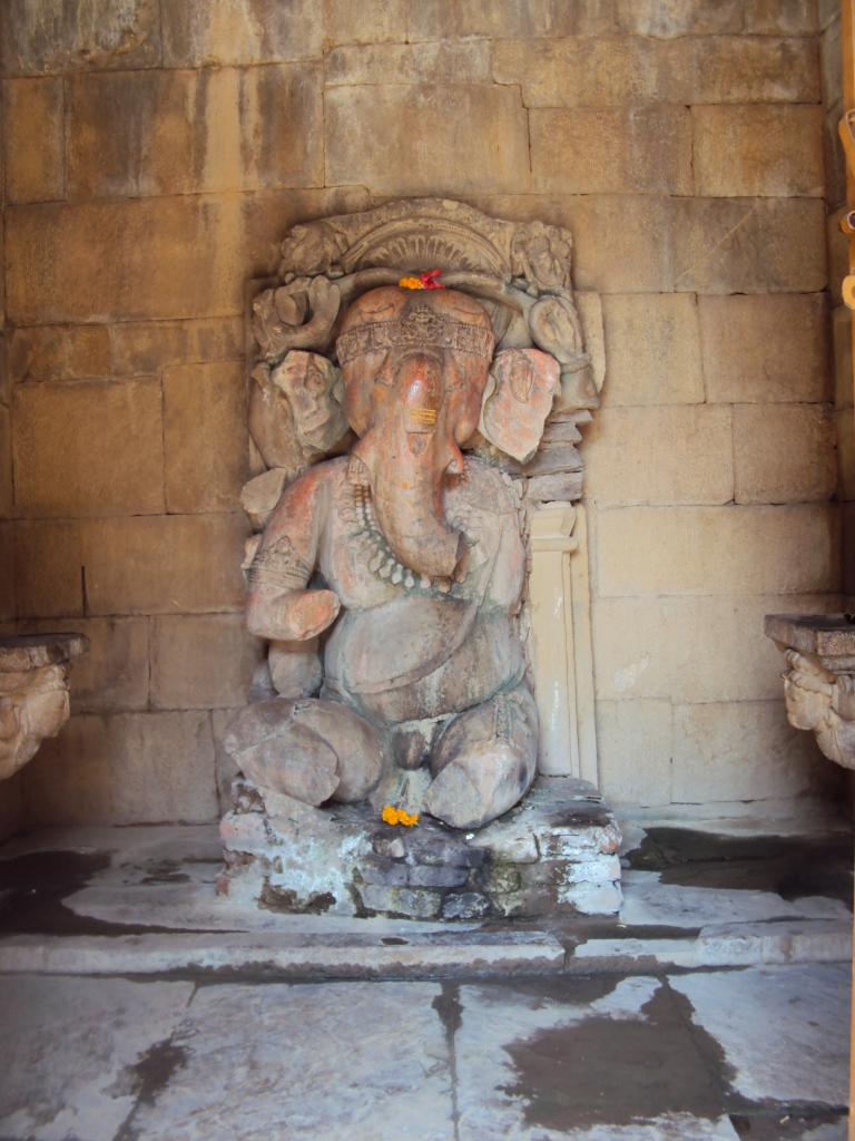 Temple of Ganesh(VSH)